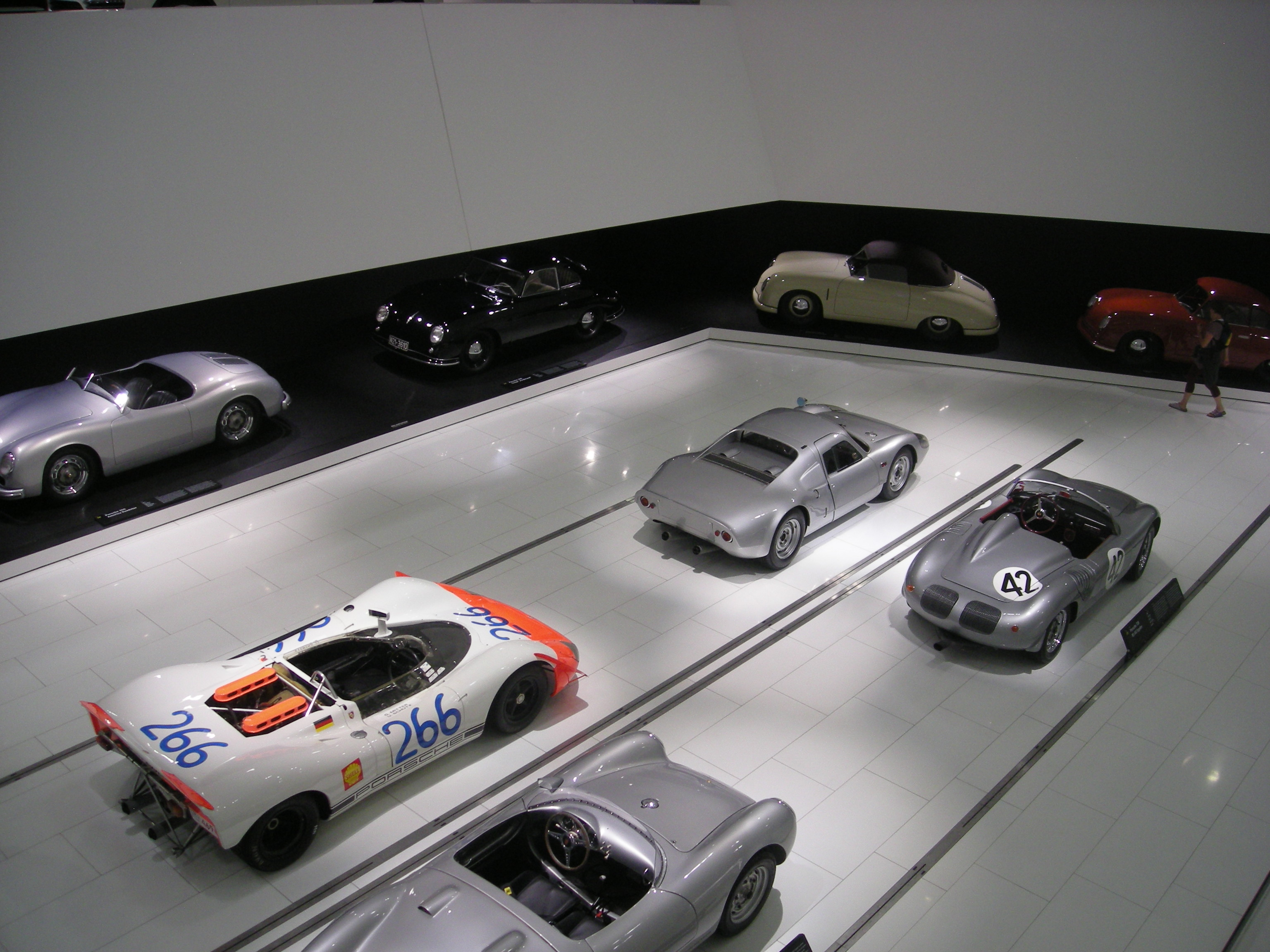 The interior of the Porsche Museum in Stuttgart, Baden-Württemberg (Germany).